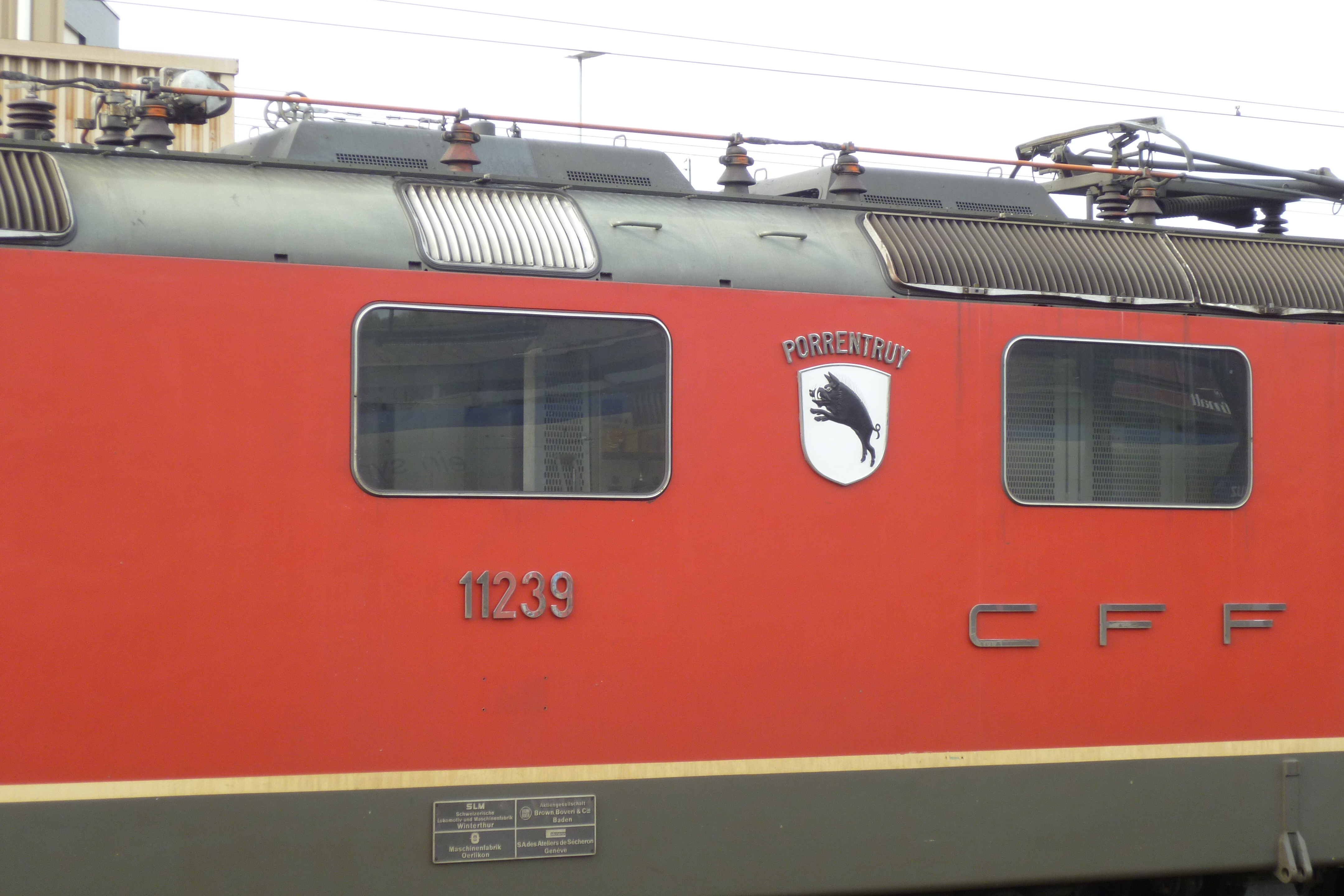 Rotkreuz train station SBB Re 4/4 II 11239 with a mixed freight train collected at Rotkreuz freight yard SBB Re 4/4 II 11239 is the only Re 4/4 II carrying a Coat of arms. It is the one of Porrentruy, a municipality of the Canton of Jura, which was created in 1979 as 26th canton of Switzerland. Therefore, following the tradition babtising an SBB Ae 6/6 the SBB-CFF-FFS Ae 6/6 11483 Porrentruy was chosen to carry the Coat of arms of the République et Canton du Jura and the coat of arms of Porrentruy went to the Re 4/4 II 11239.